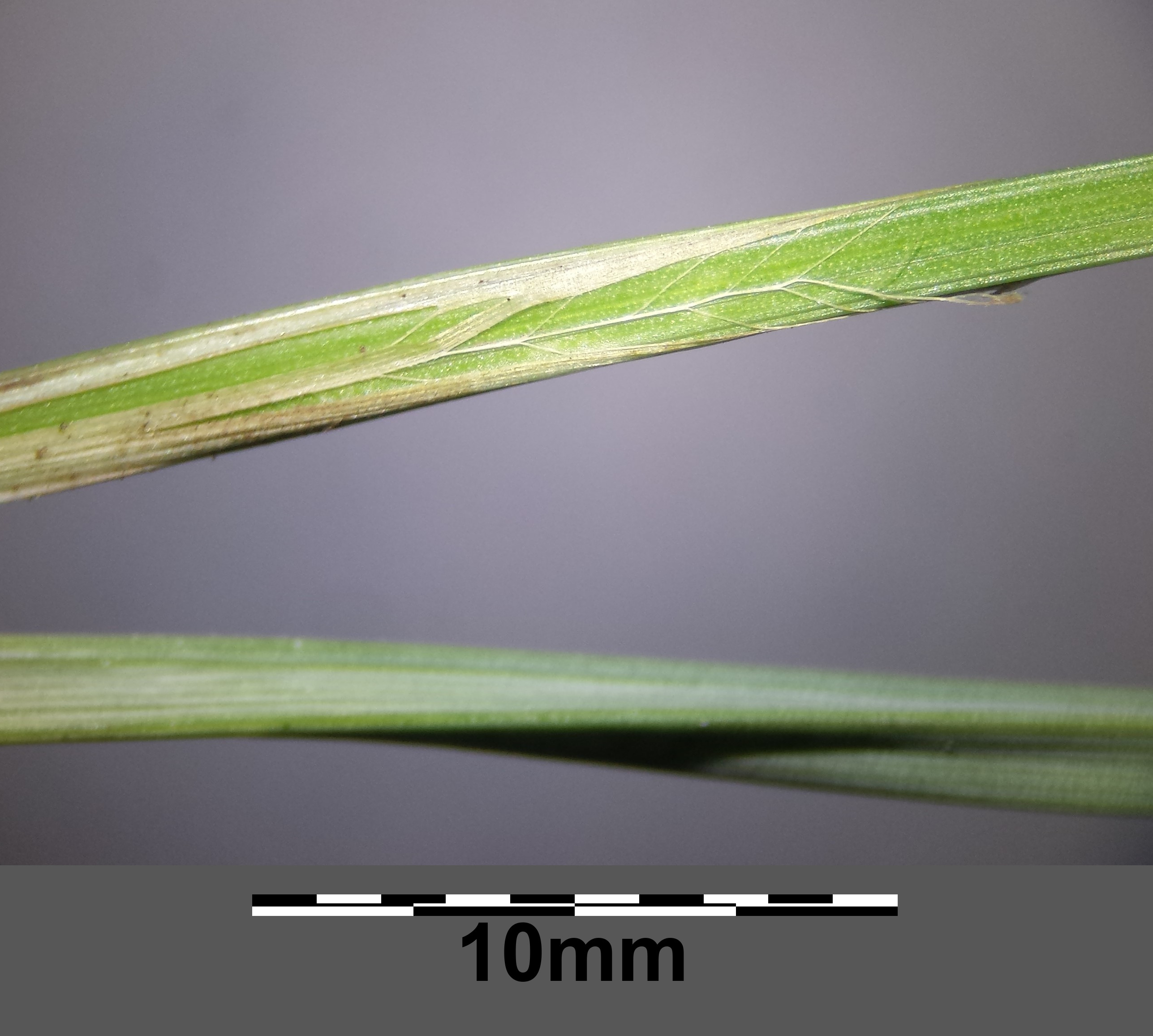 Fibrous lower leaf sheath Taxonym: Carex buxbaumii ss Fischer et al. EfÖLS 2008 ISBN 978-3-85474-187-9 Location: Mamauwiese near Puchberg am Schneeberg, district Wiener Neustadt, Lower Austria - ca. 950 m a.s.l. Habitat: meadows